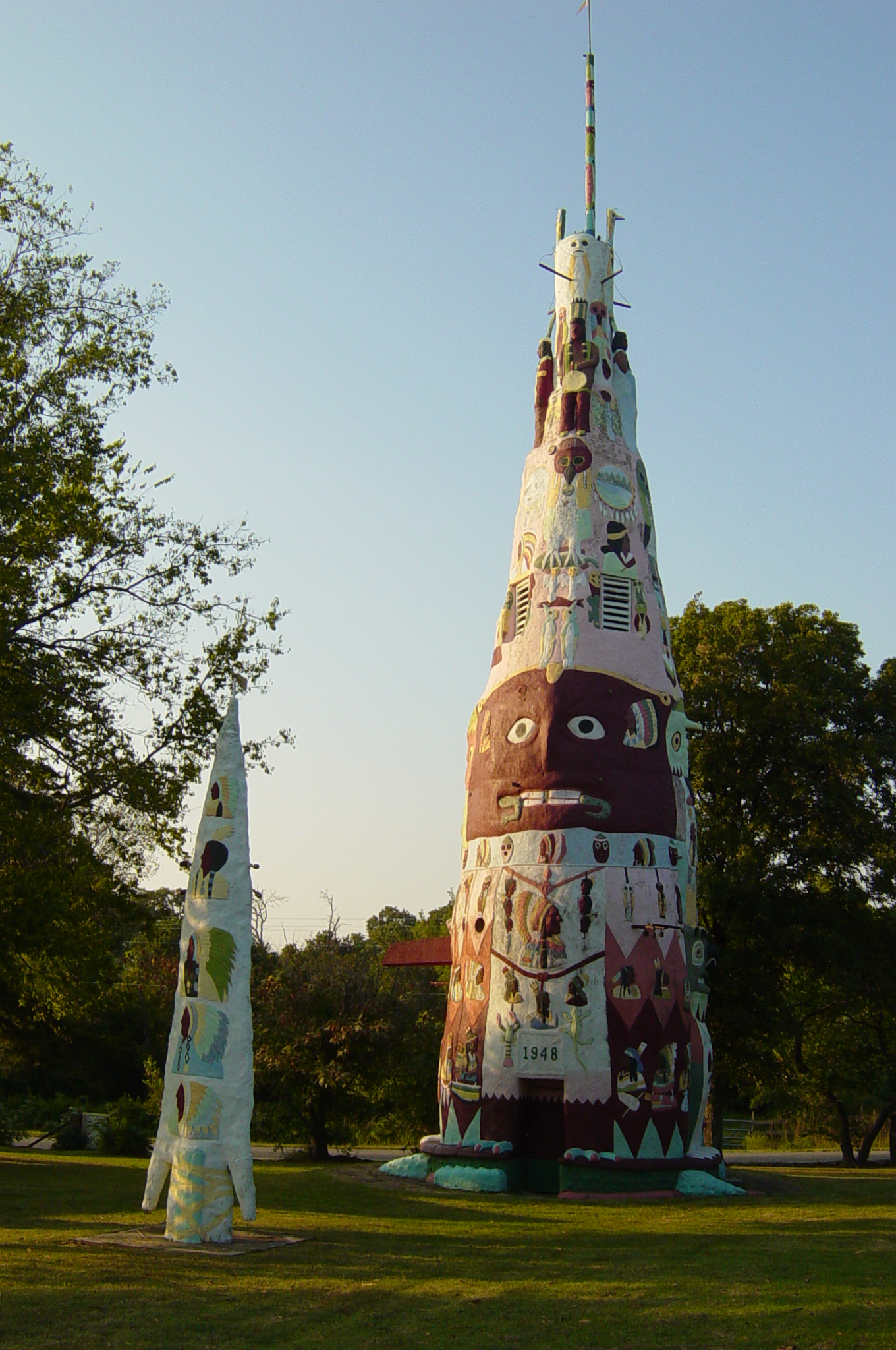 Ed Galloway's Totem Pole Park is located near U.S. Route 66en in Foyil, Oklahomaen.